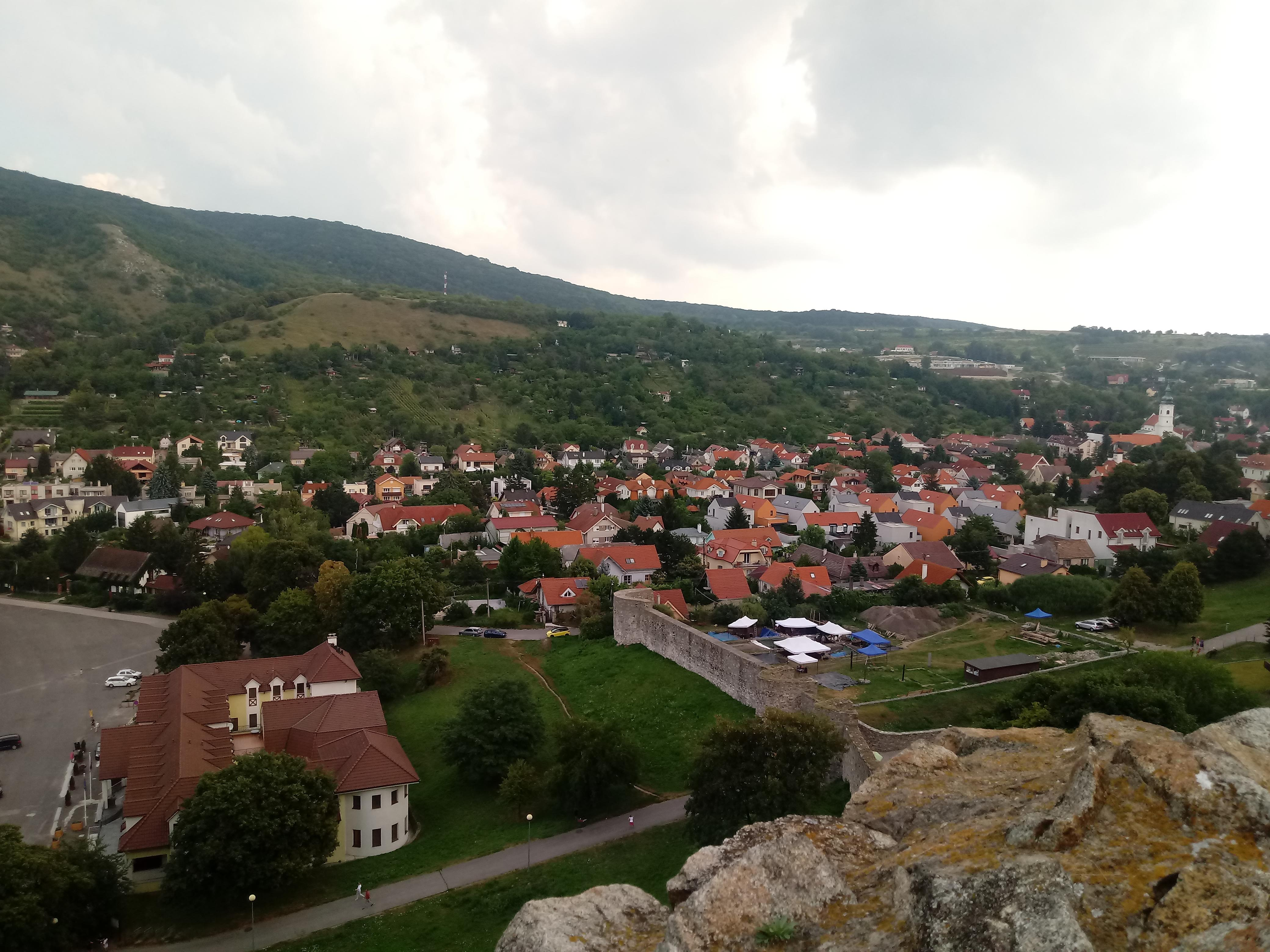 Devin view from Devin castle